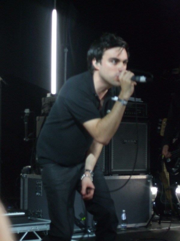 An image of Richard Archer from the band Hard-Fi performing at an exclusive London concert